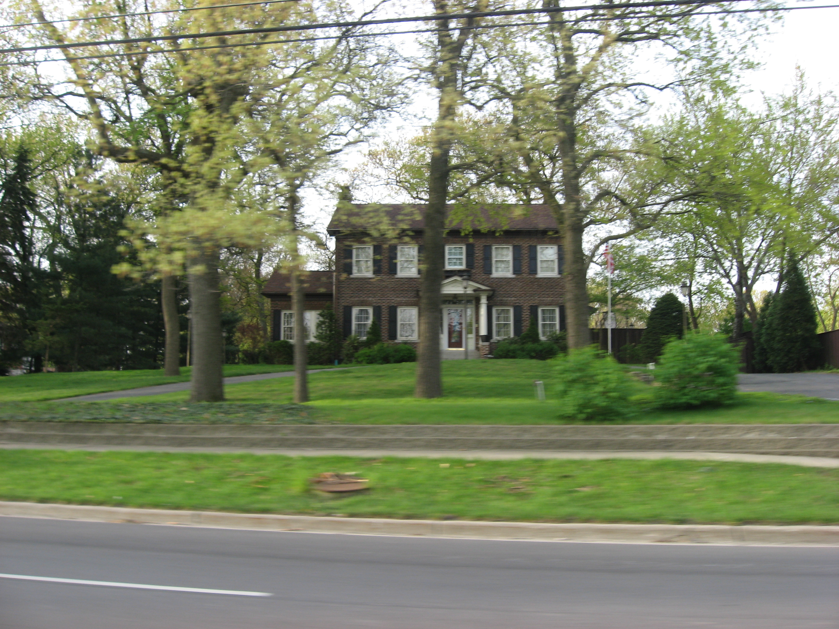 Front of the Ibach House, located at 1908 Ridge Road in Munster, Indiana, United States. Built in 1924, it is listed on the National Register of Historic Places.